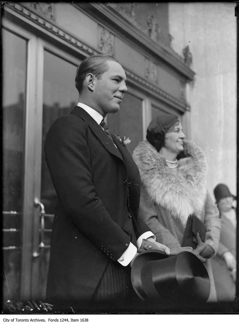 John David Eaton and Lady Eaton at opening of Eaton's College Street store